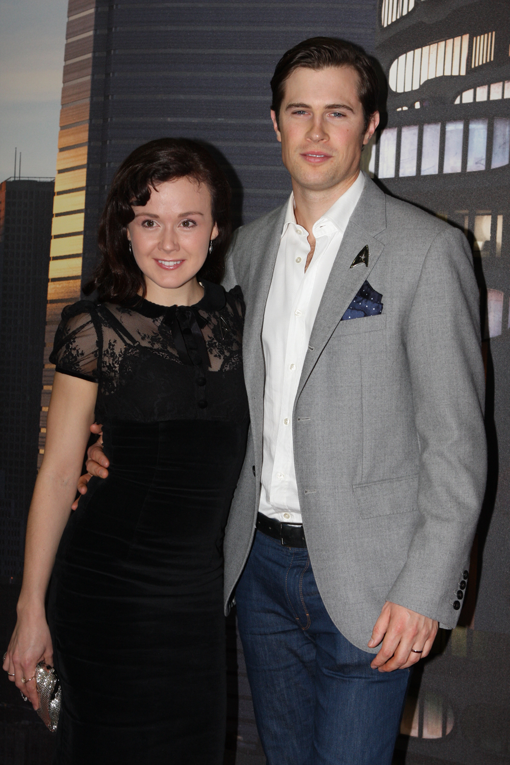 Arianwen Parkes-Lockwood and David Berry at Star Trek Into Darkness Australian premiere